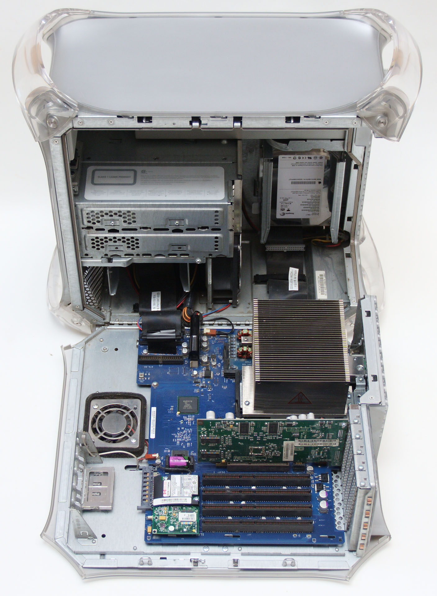 Apple PowerMac G4 M8570 ("Mirrored Drive Doors" model)